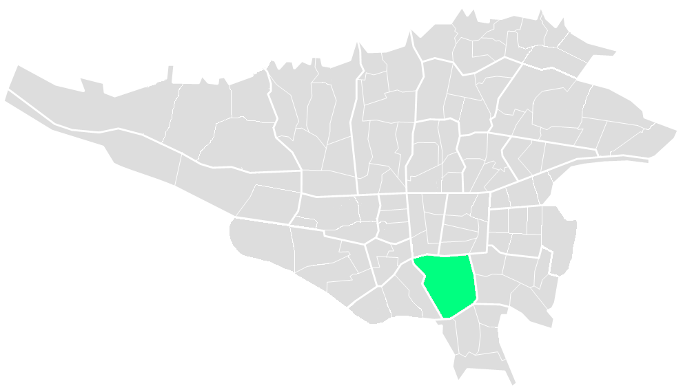 Region 16 of Tehran